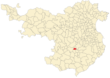 Vilablareix